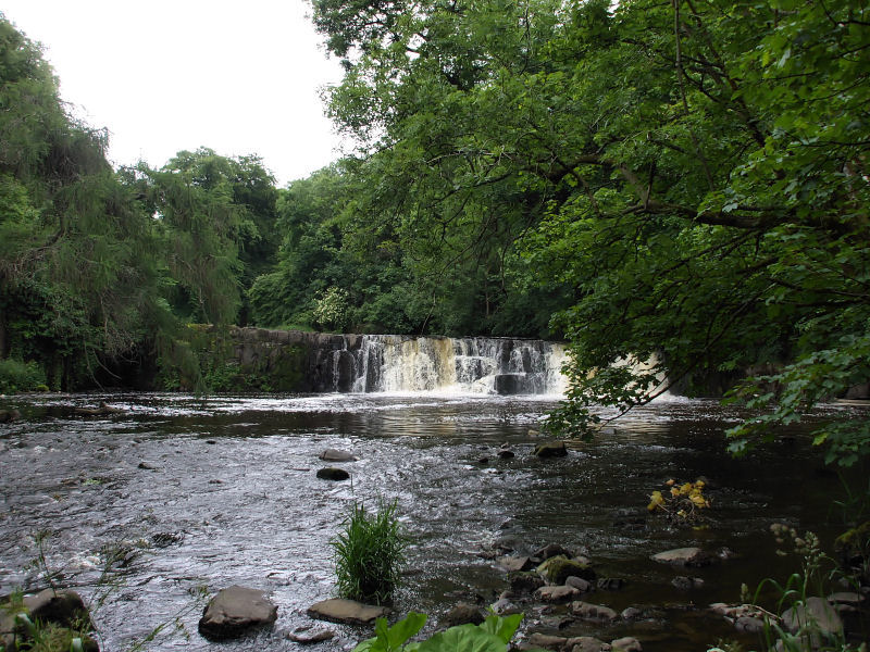 White Cart Water flowing through Linn Park from Netherlee to Cathcart